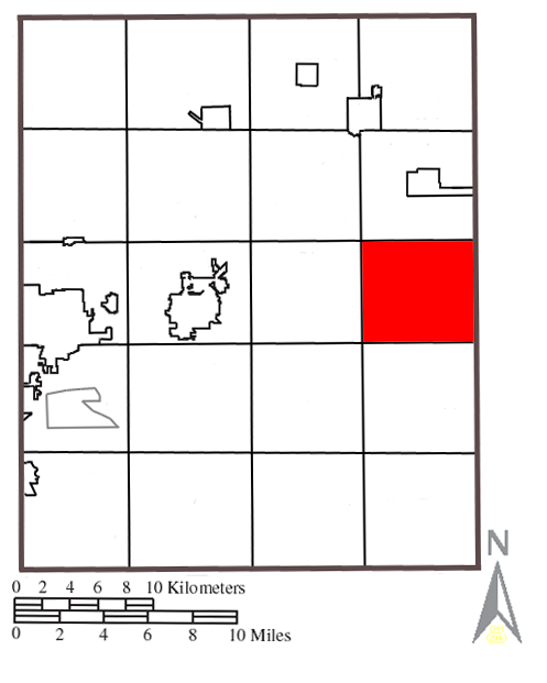 Map of Portage County, Ohio with Paris Township highlighted.